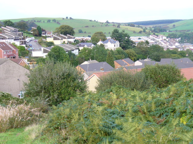 Abertridwr. View of this former coal mining village from the road west to Eglwysilan. The village is long and narrow, shaped by the narrowness of the valleys. Most streets run along the contour lines. Newer houses have been built on the upper slopes.